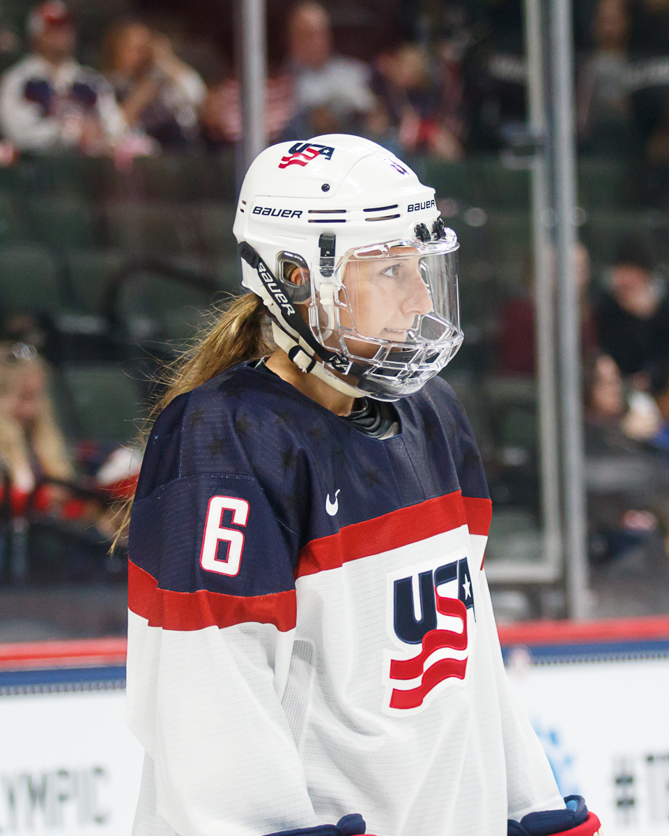 Kali Flanagan playing for Team USA in 2017